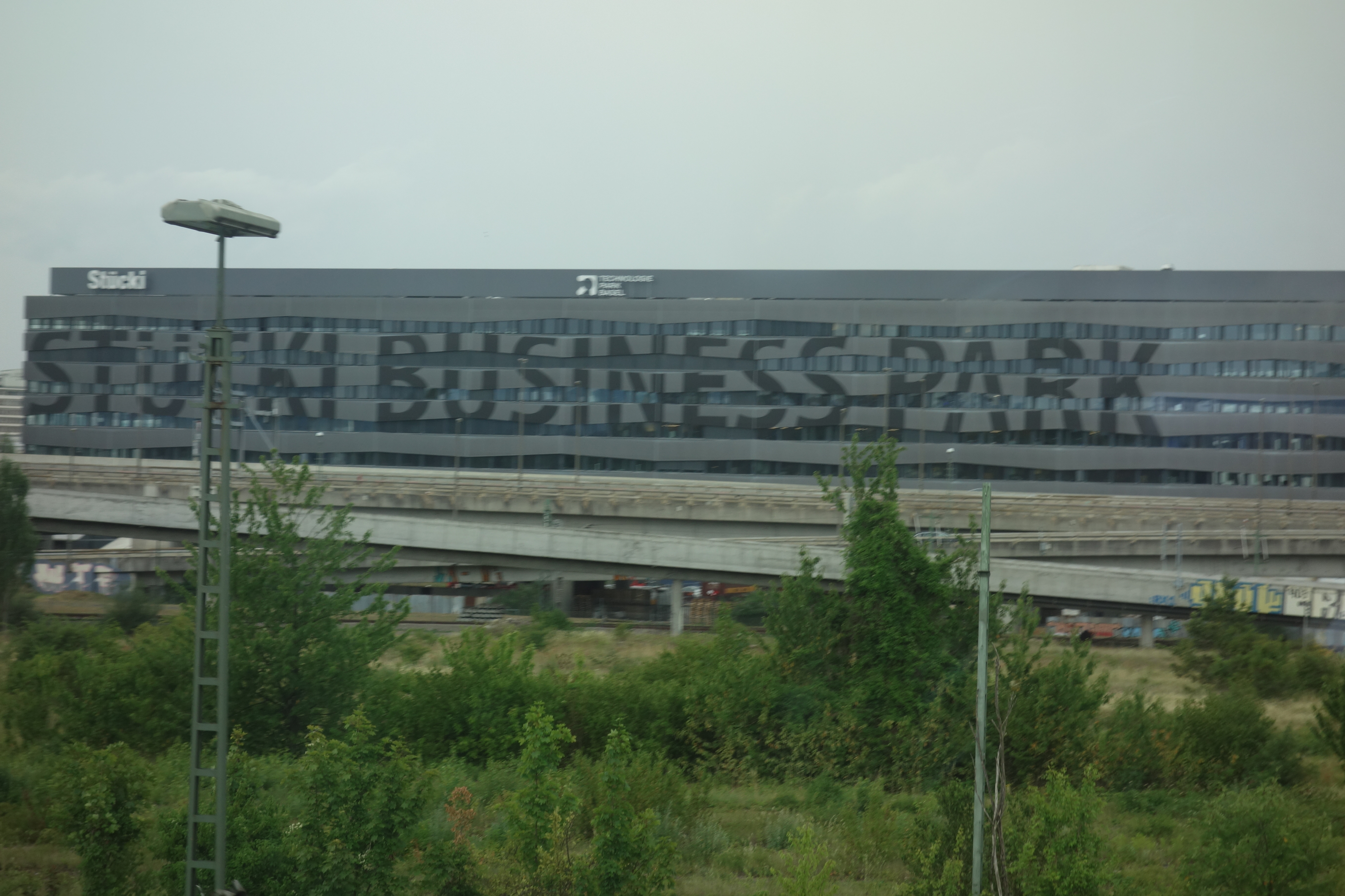 Stücki Business Park, Basel 2017 (shopping centre & technology park)